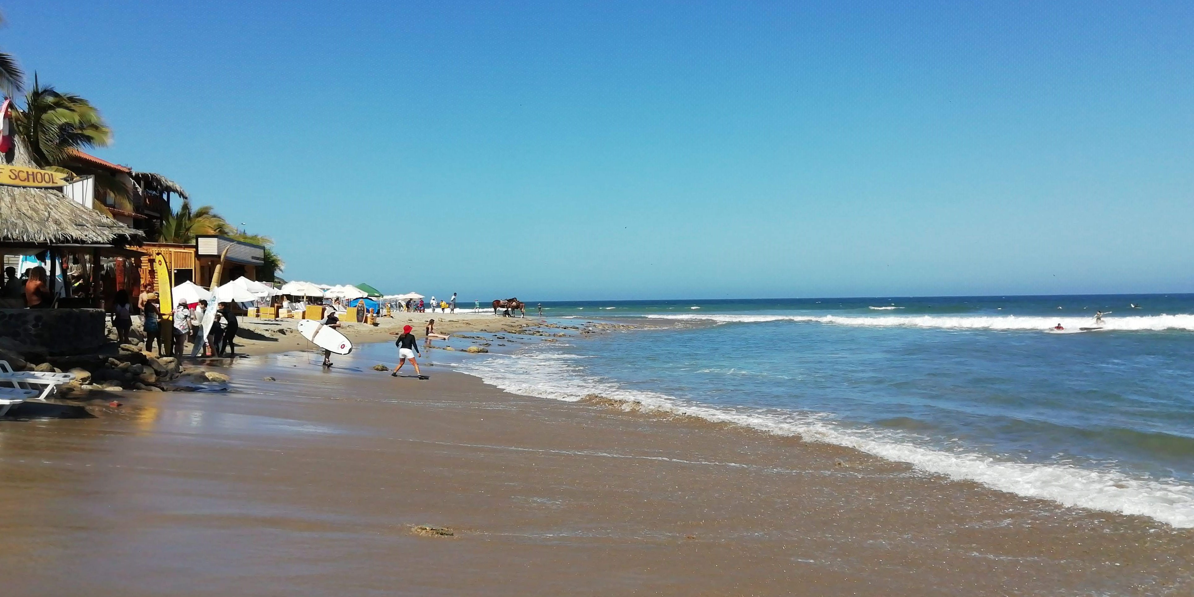 Máncora beach, Piura, northern Peru